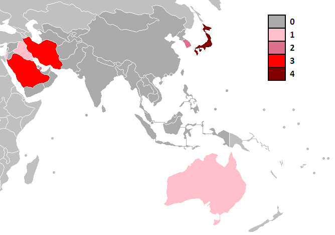 AFC Asian Cup Champions: 0 1 2 3 4